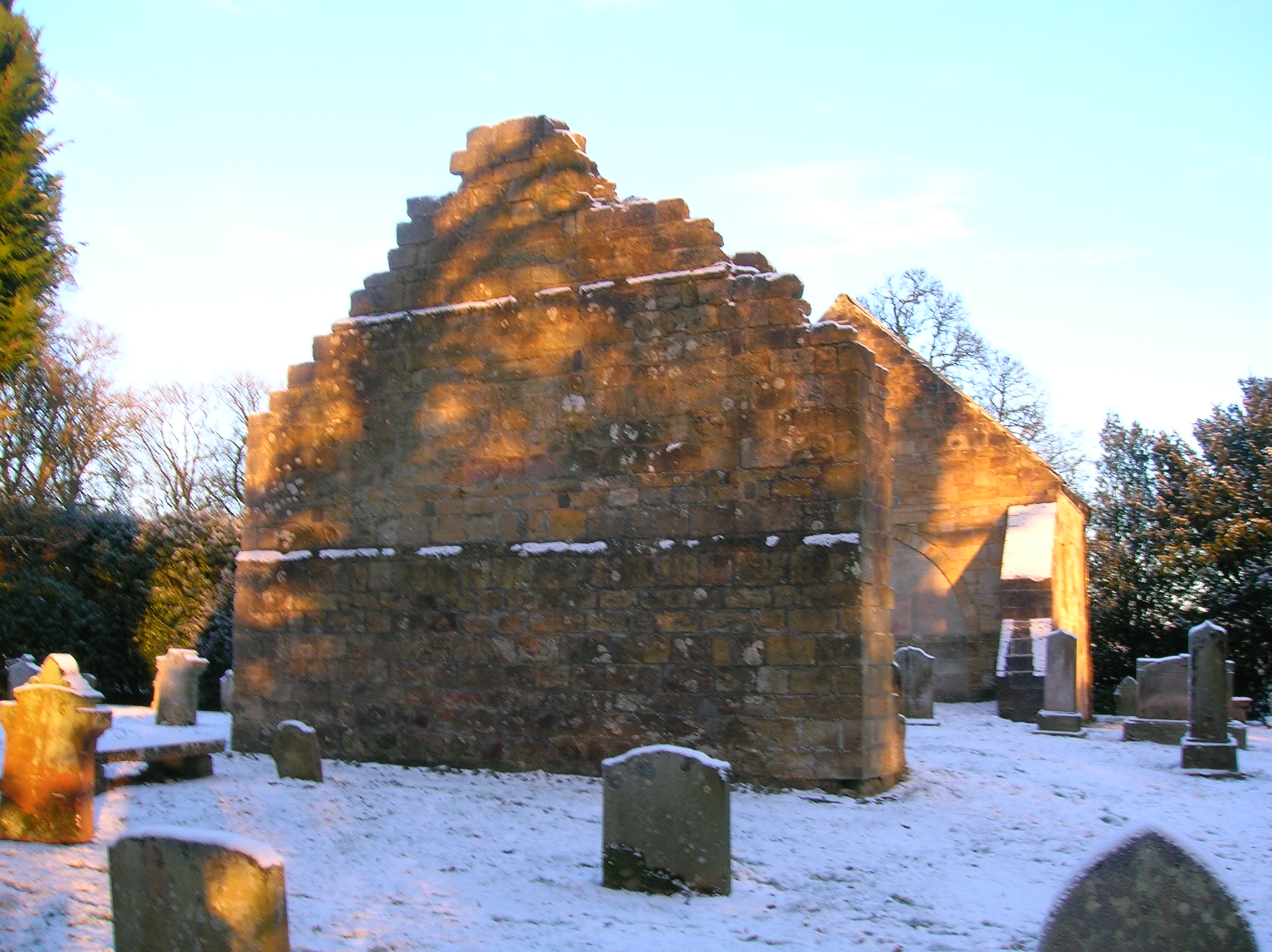 Loudoun Kirk viewed from the West. Galston, East Ayrshire, Scotland.